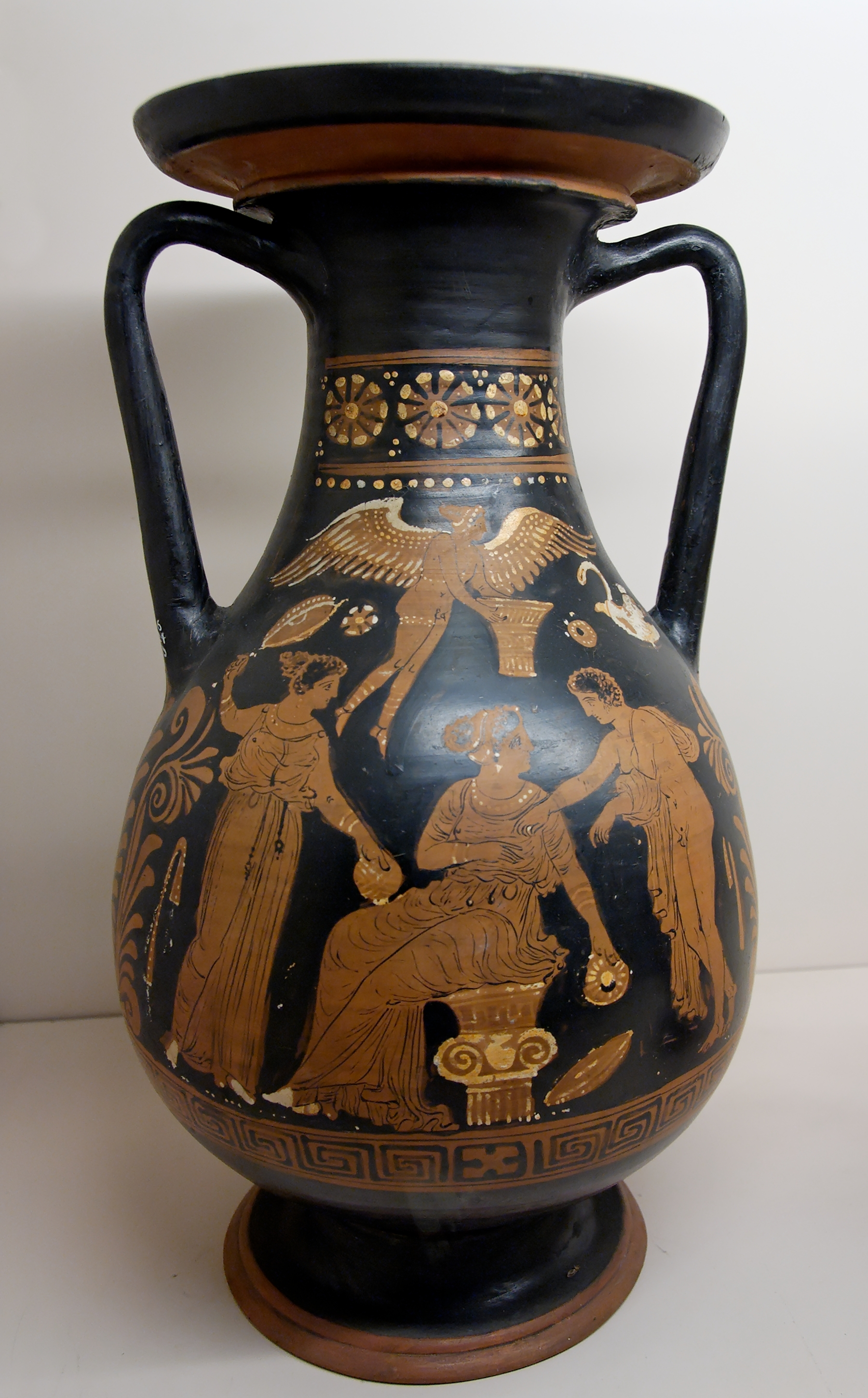 Women, a youth and Eros. Apulian red-figured pelike, ca. 330–320 BC. From the Basilicata.